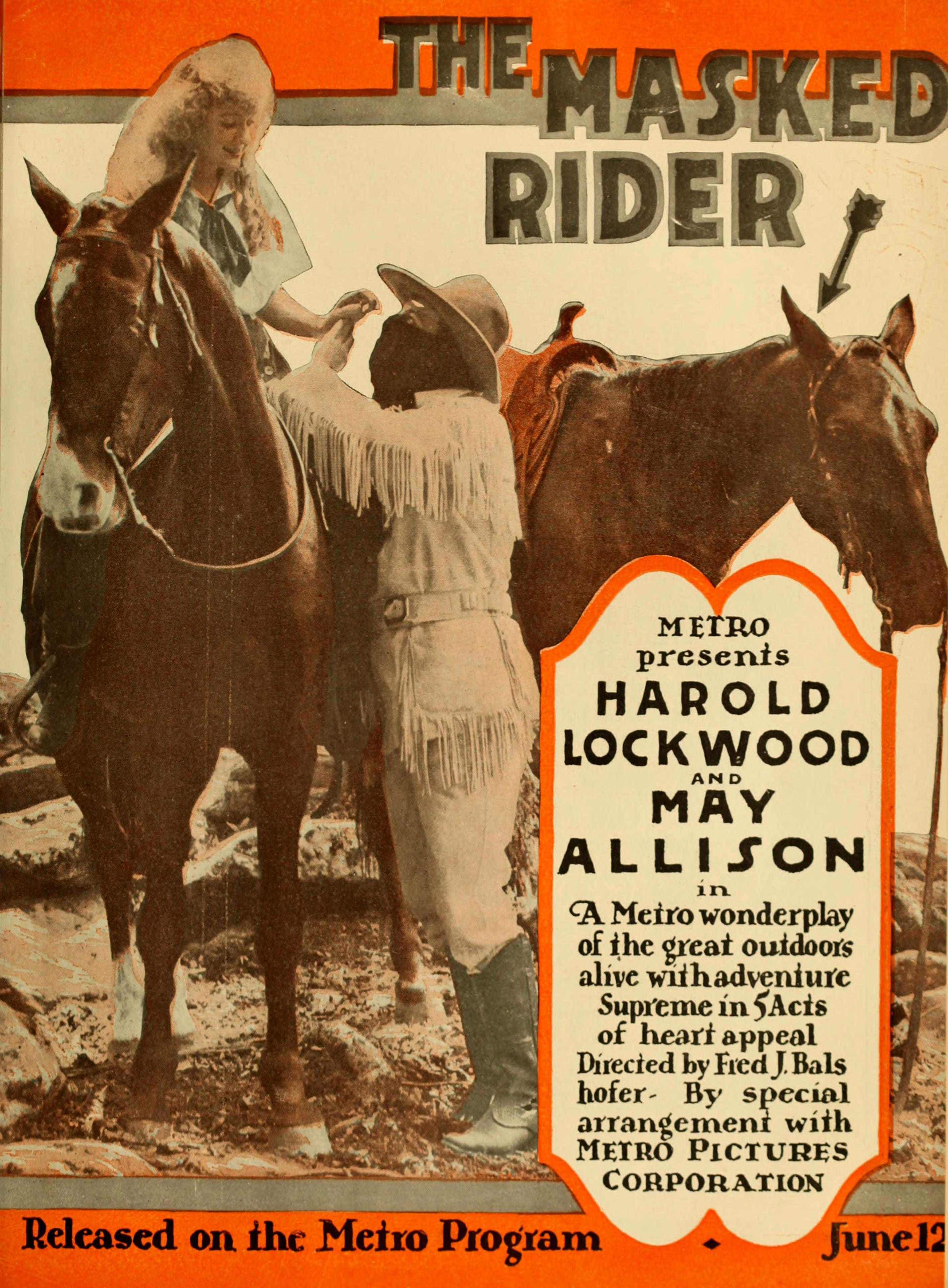 Advertisement in The Moving Picture World for the film The Masked Rider (1916).